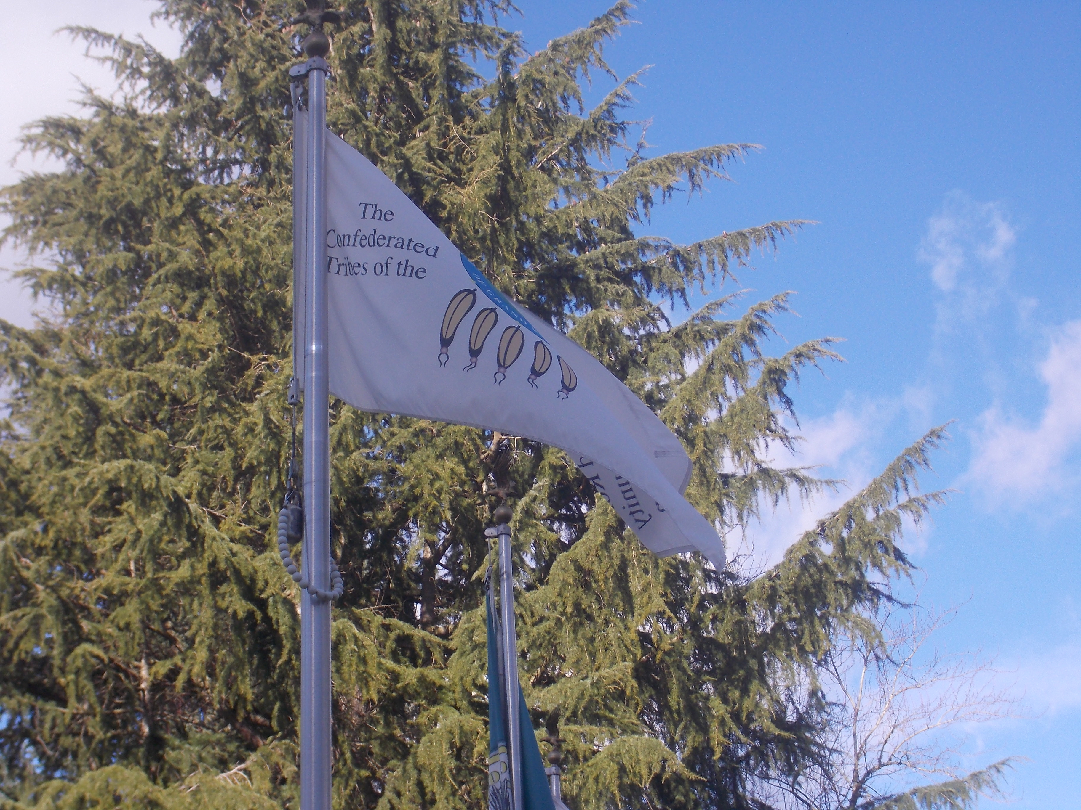 Oregon State Capitol, Salem, OR, December 2017